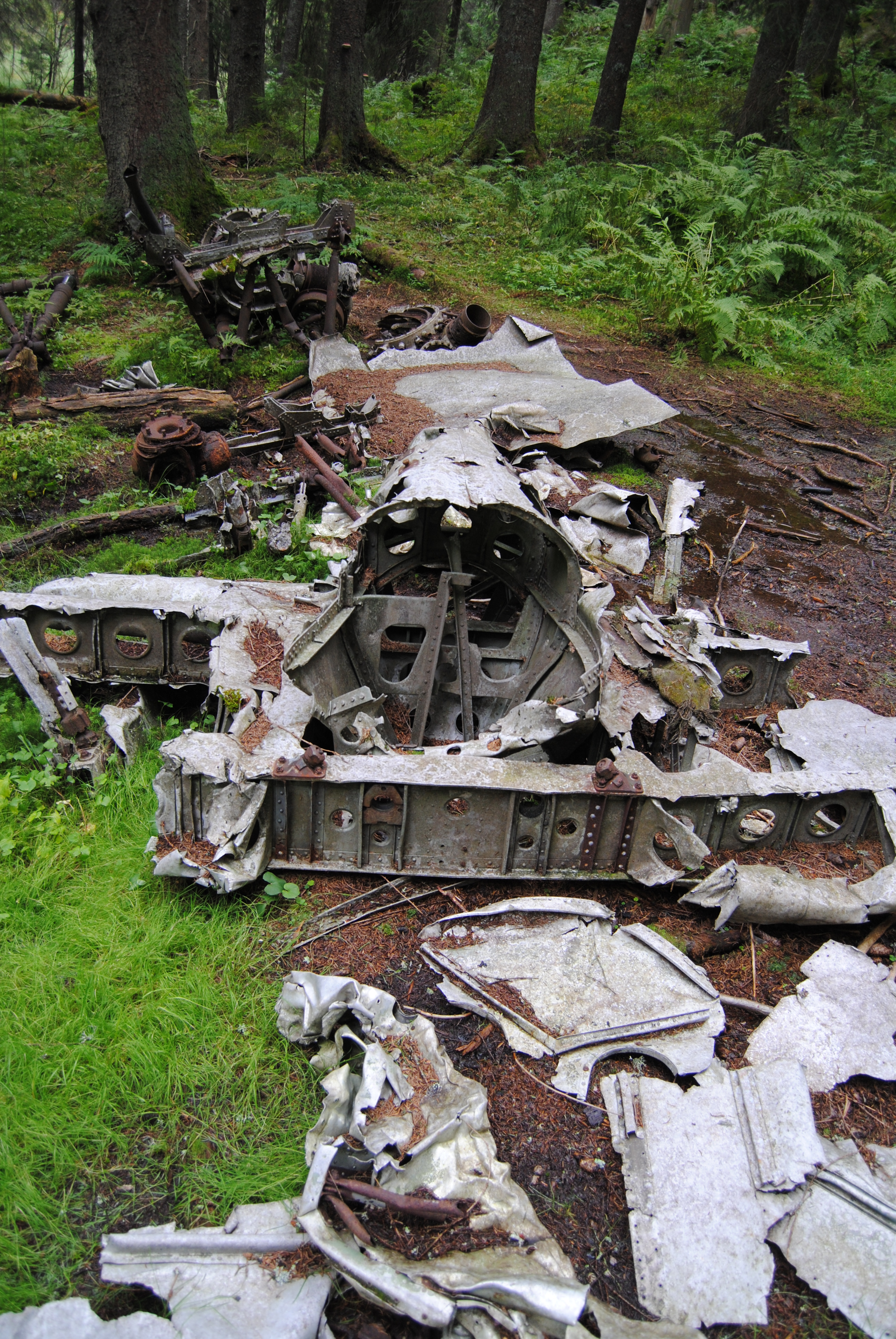 Crashed German Dornier Do 17M-1 in Hansakollen, Maridalen, Oslo. The plane went down on the 2nd July 1942 during WW2. Picture taken in 2013